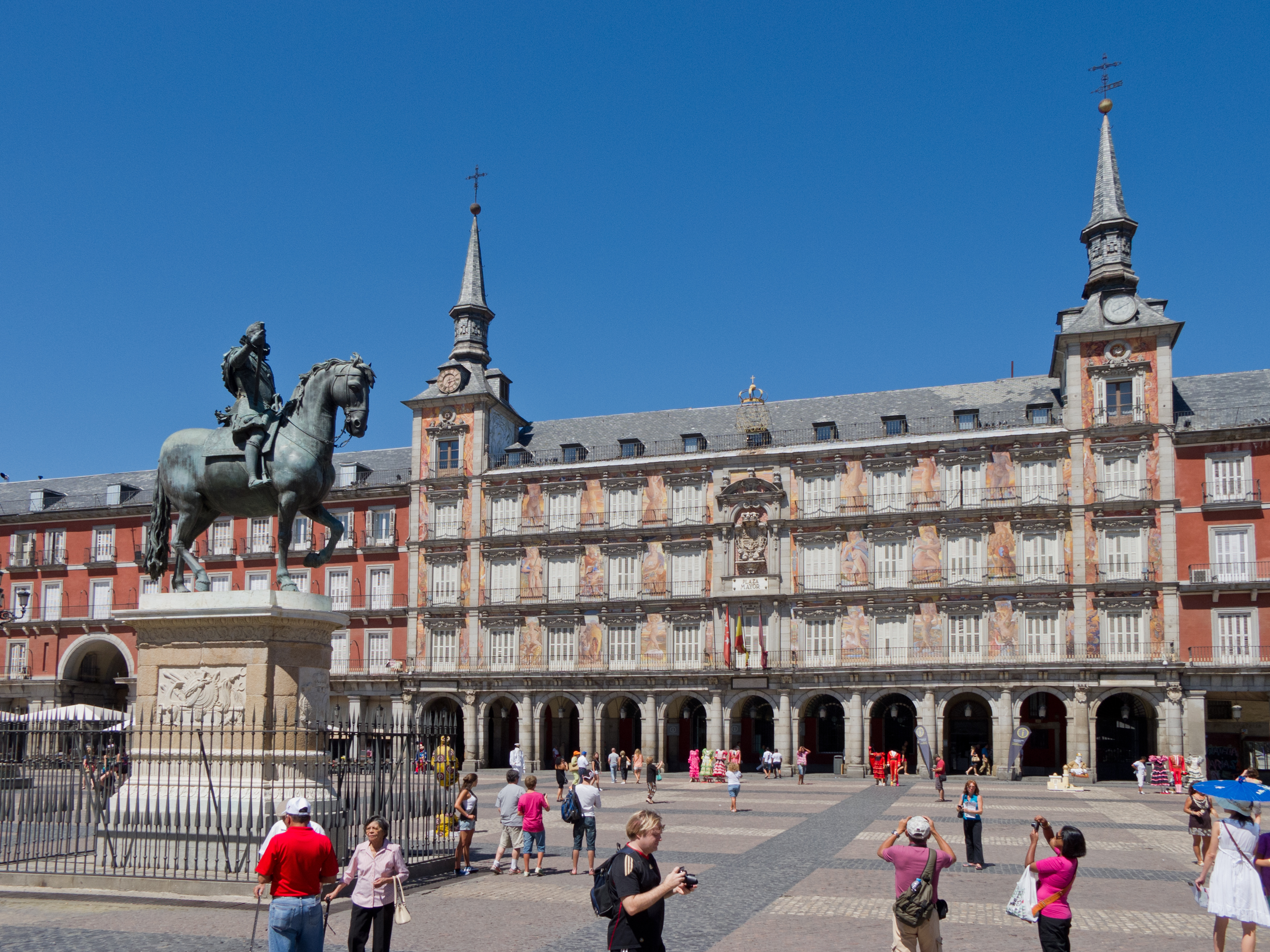 Statue of Felipe III and Casa de la Panadería, Plaza Mayor, Madrid, Spain.